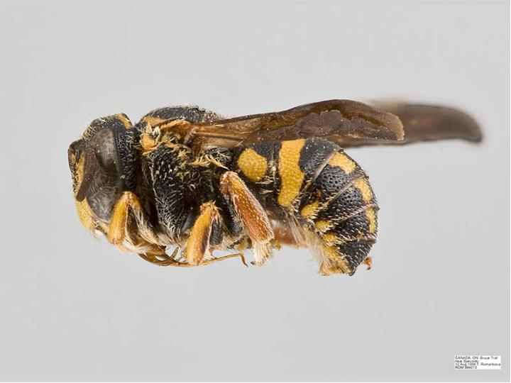 Anthidiellum notatum male